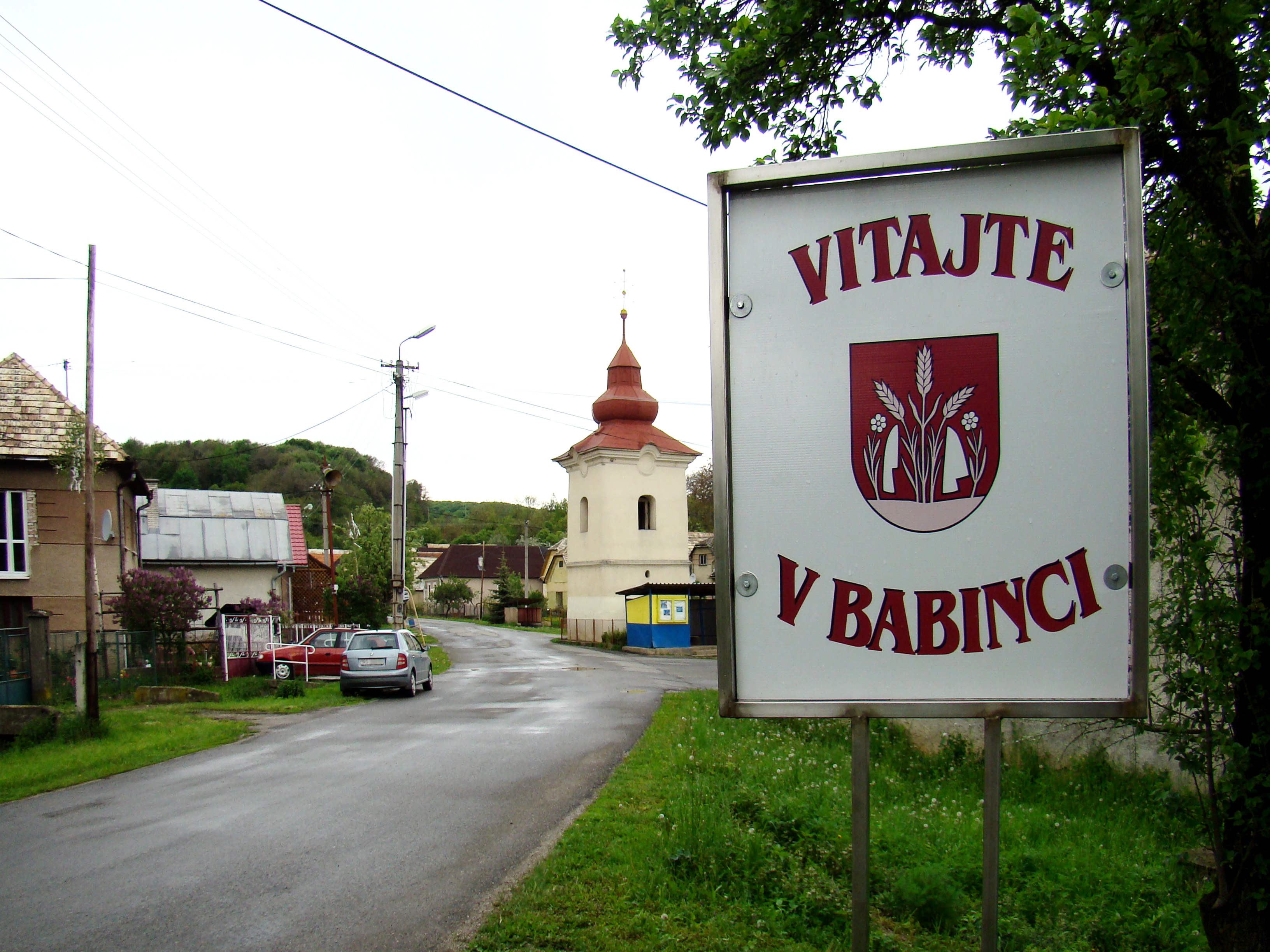 Babinec - small Slovak Village